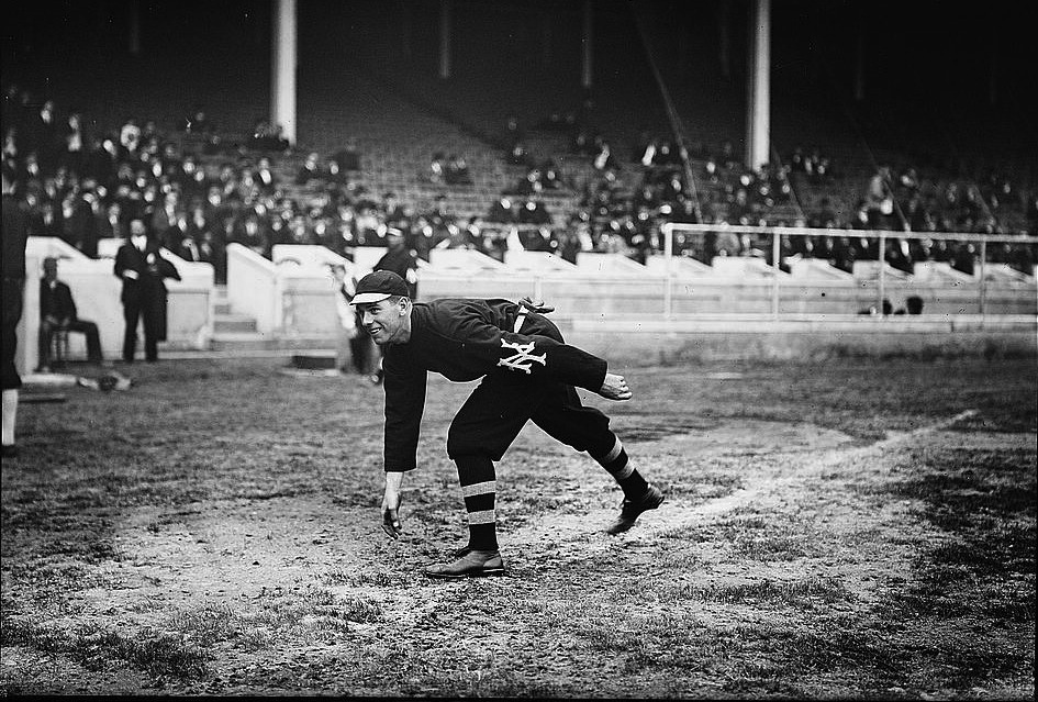 Fred Snodgrass warming up before a game during the 1911 World Series at Shibe Park in Philadelphia.